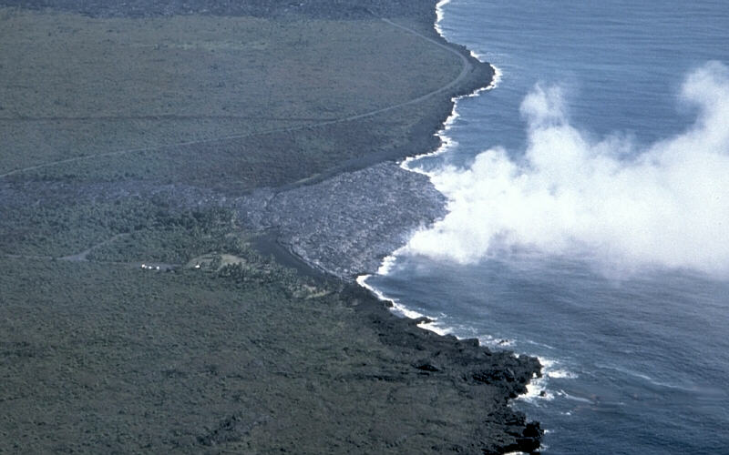 Aerial view of the active lava delta at Kamoamoa, Kilauea. Steam plumes mark the points at which lava carried in a series of lava tubes on the delta top reach the sea.